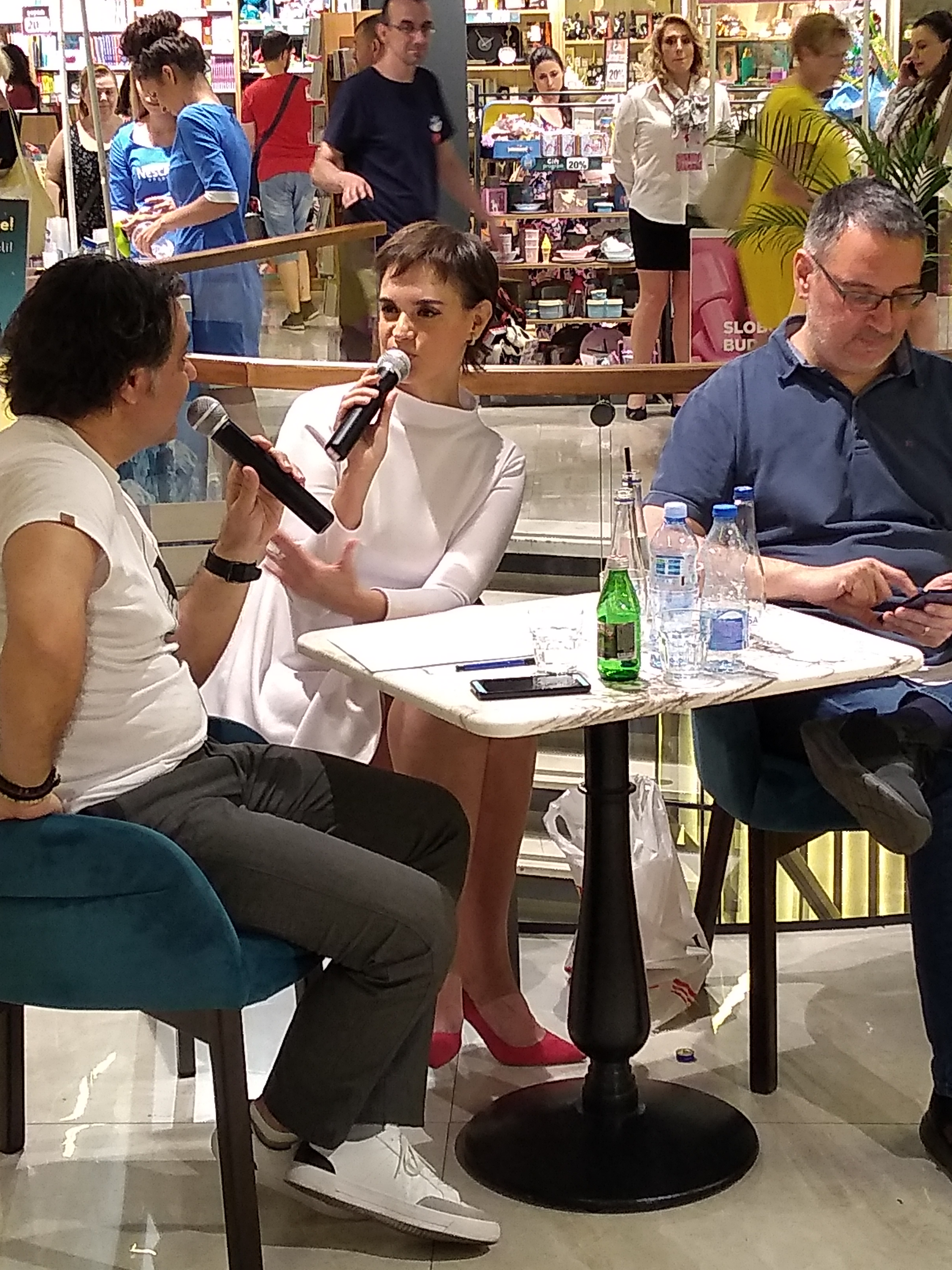 Night of book manifestation, 2019, Laguna bookshop, Belgrade, Serbia, Ivana Stanković, one of the most successful Serbian models in the world Srpski (latinica): 20. jubilarna manifestacija Noć knjige u Laguni, Beograd, Srbija. Ivana Stanković, jedna od najuspešnijih srpskih manekenki u svetu